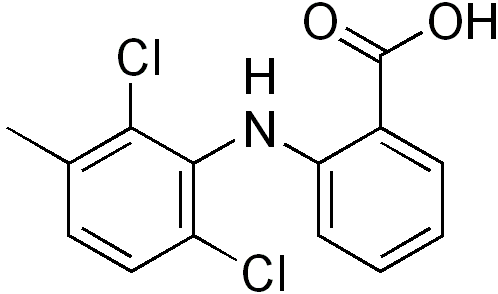 chemical structure of meclofenamic acid